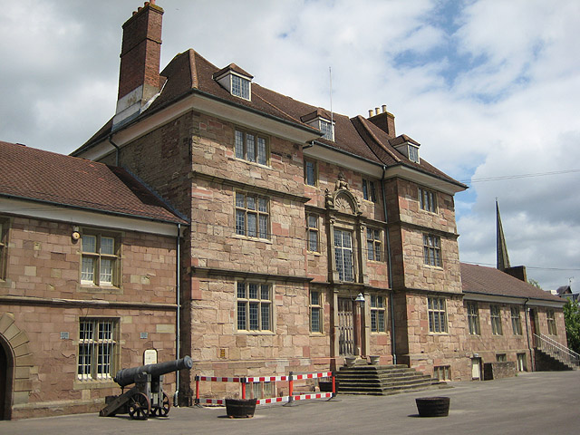 Great Castle House Completed in 1673, the building became an assize court in the early 18th century. It has been the HQ of the Royal Monmouthshire Royal Engineers (Militia) since the mid 19th century.